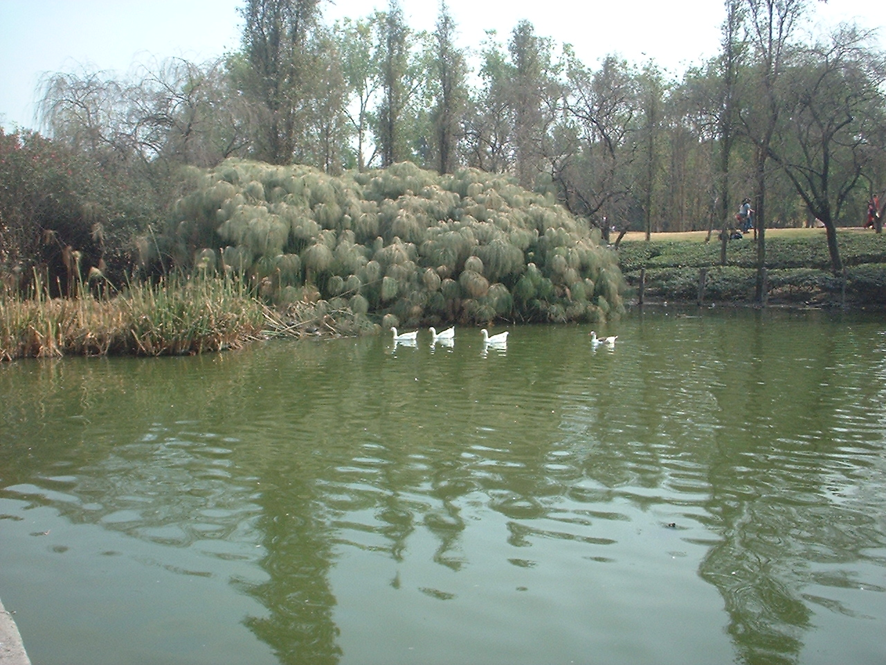 Pond in Parque Tezozómoc — in the Azcapotzalco district, Mexico City (México, D. F.).